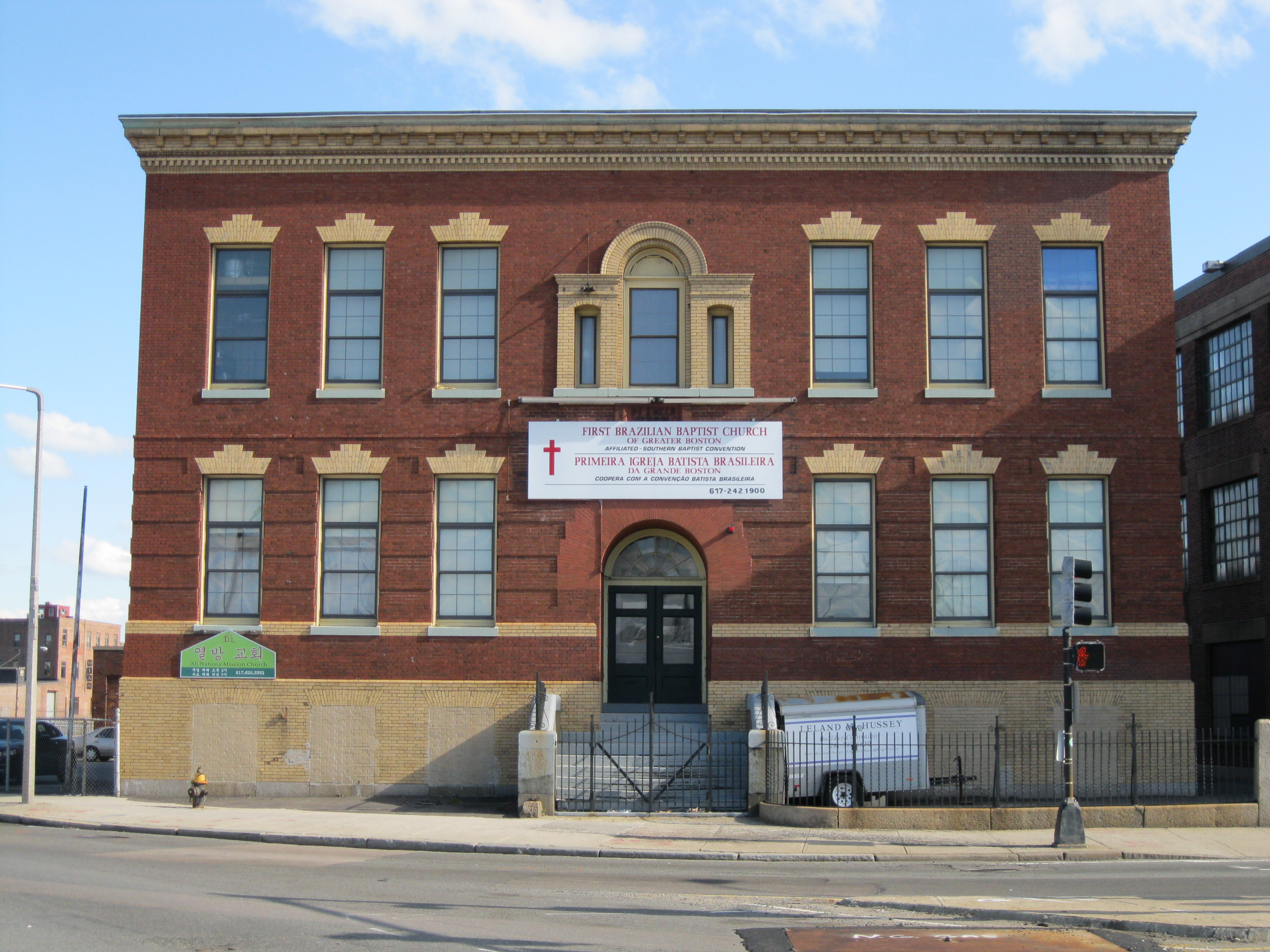 First Brazilian Baptist Church of Greater Boston (Primeira Igreja Batista Brasileira de Grande Boston); affiliated with the Southern Baptist Convention. Located at 24 Cambridge Street, Charlestown MA 02129.